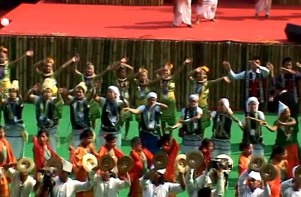 On 19th Janaury 2013, Hon'ble Union Tourism Minister Shri K Chiranjeevi inagurated 1st NEITM at Guwahati.